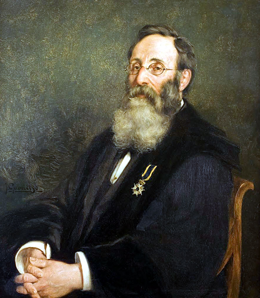 Jan van Leeuwen (1850-1924), Leiden University, professor Greek language & lit.